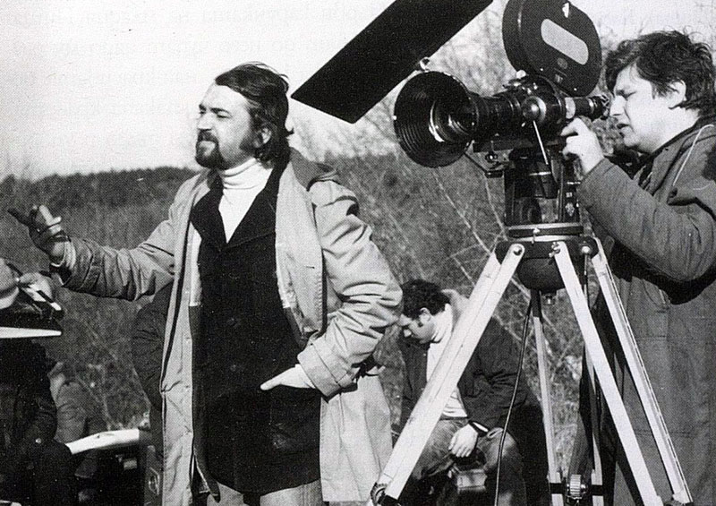 Director Rumen Surdzhiyski and Cinematographer Lachezar Videnov on the film set of "SWAN" (1976), - NonCommercial image